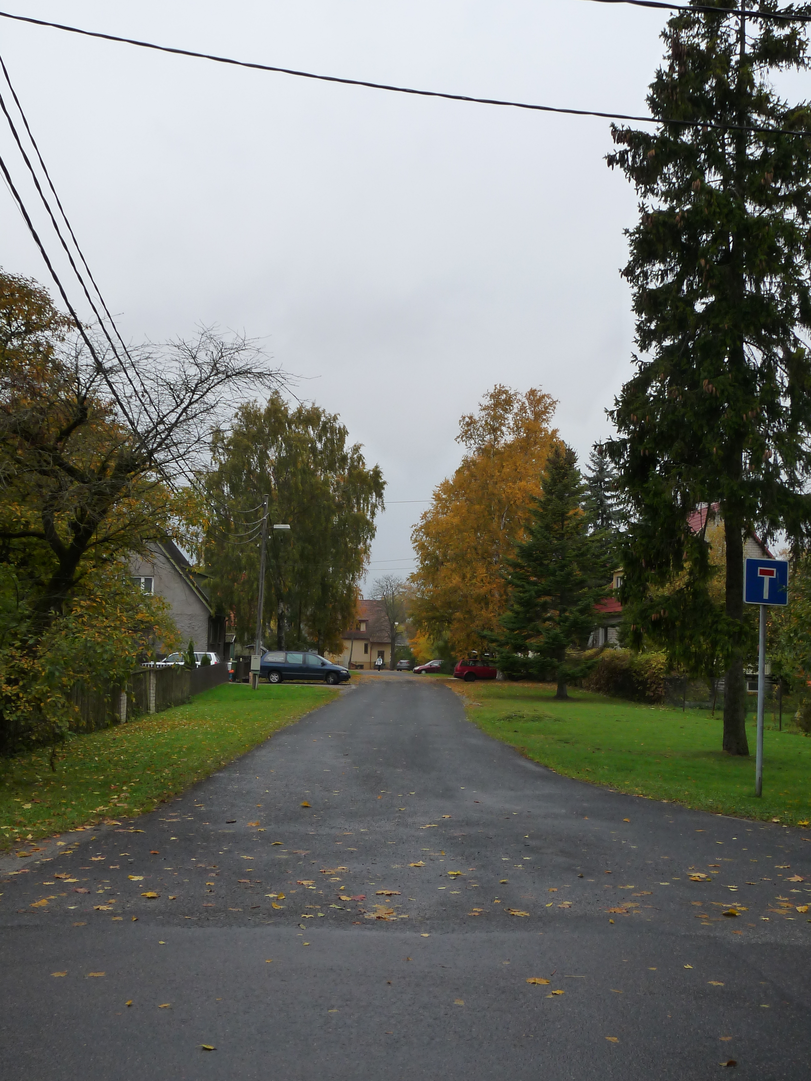 Söe street in Tallinn, Estonia